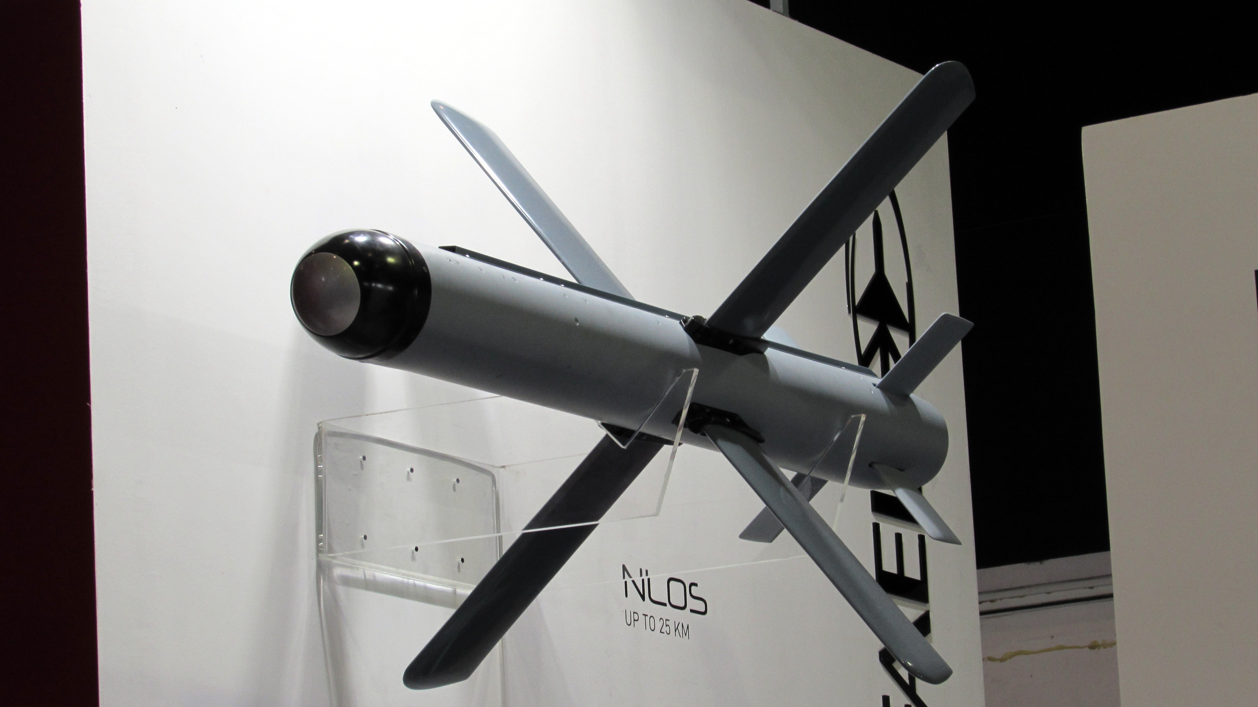 A full scale mock up of a Spike NLOS missile made by the Israeli company, Rafael Systems. Photo taken during the 2016 Asian Defence and Security (ADAS) Trade Show at the World Trade Center in Pasay, Metro Manila